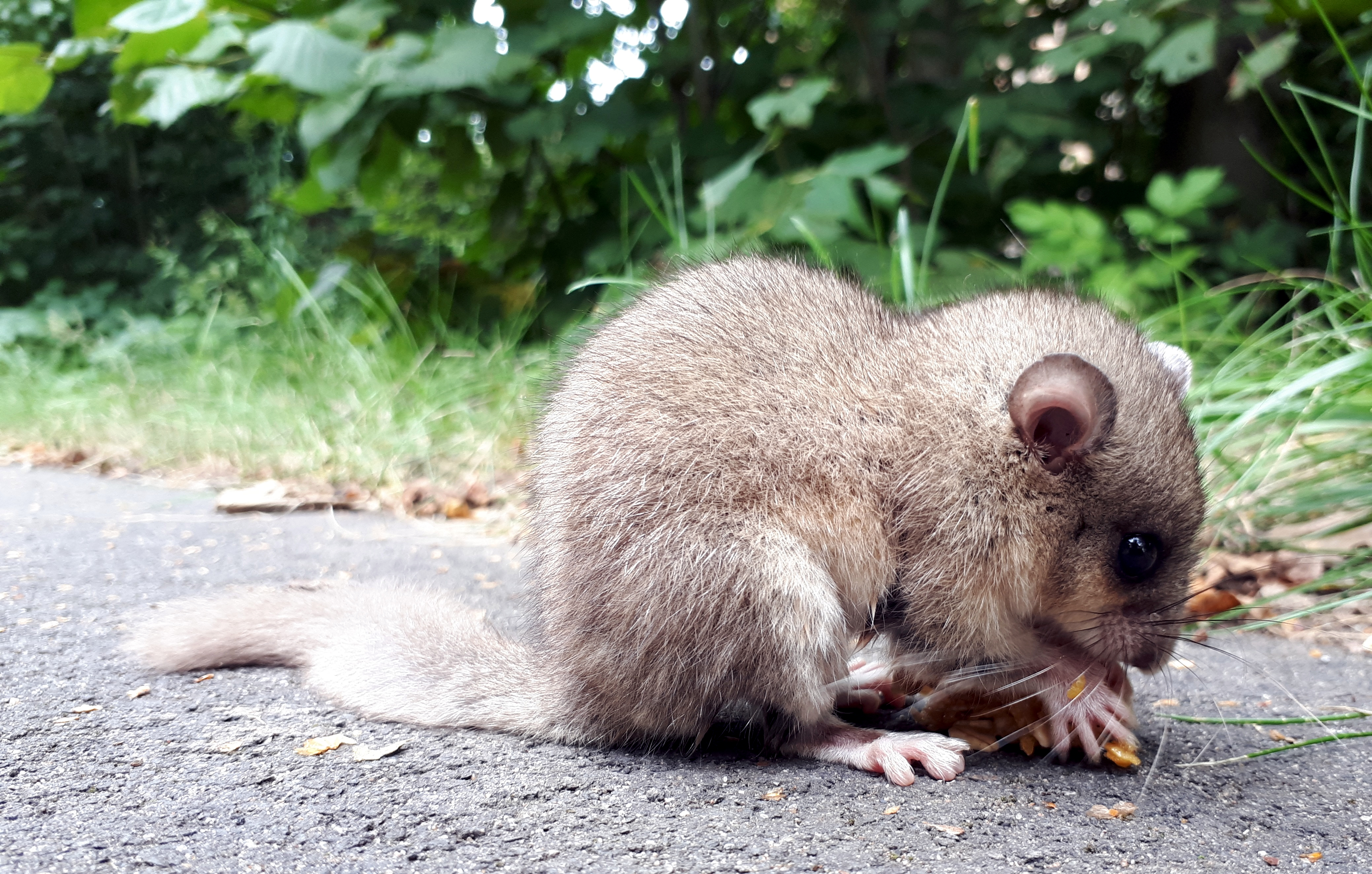 A dormouse, picture taken at the "Fuldatal" near Kassel, Hesse Germany in August 2019